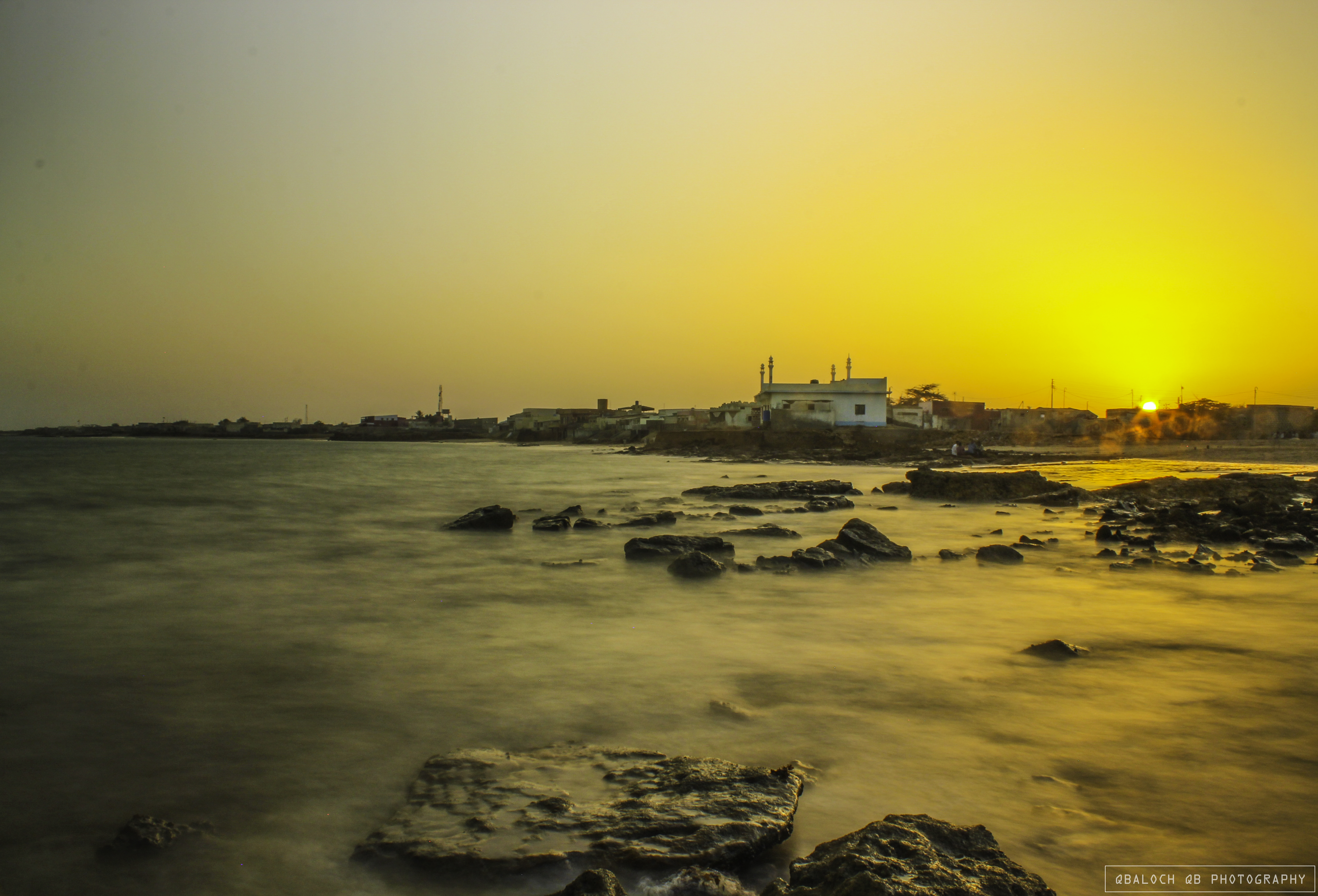 This place is very very awsome , Sunset